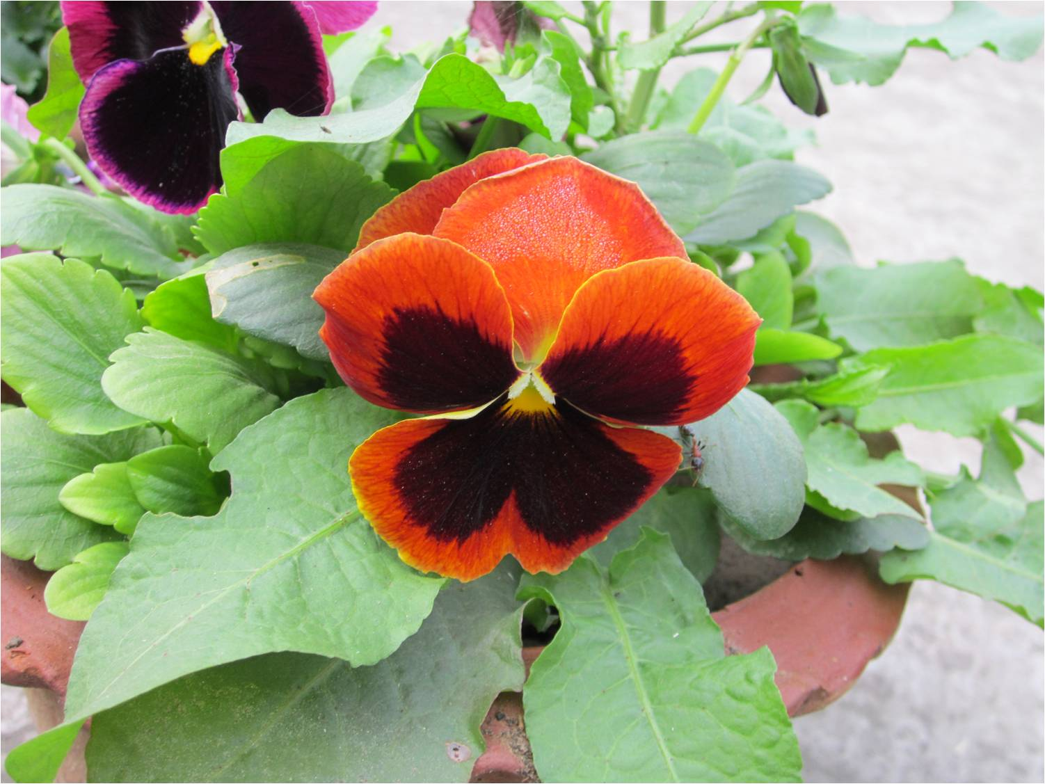 This is a photo of a bi color pansy from my garden. This photo was taken by me.